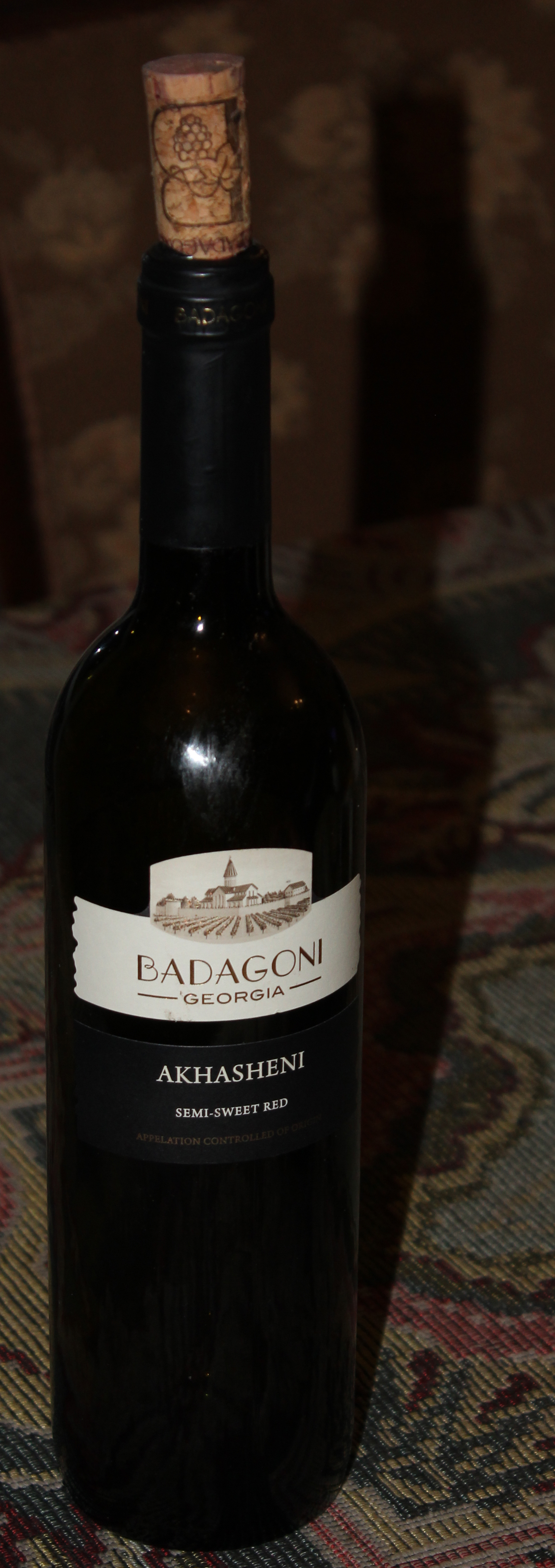 Akhasheni Wine from Georgian Badagoni Wine Company